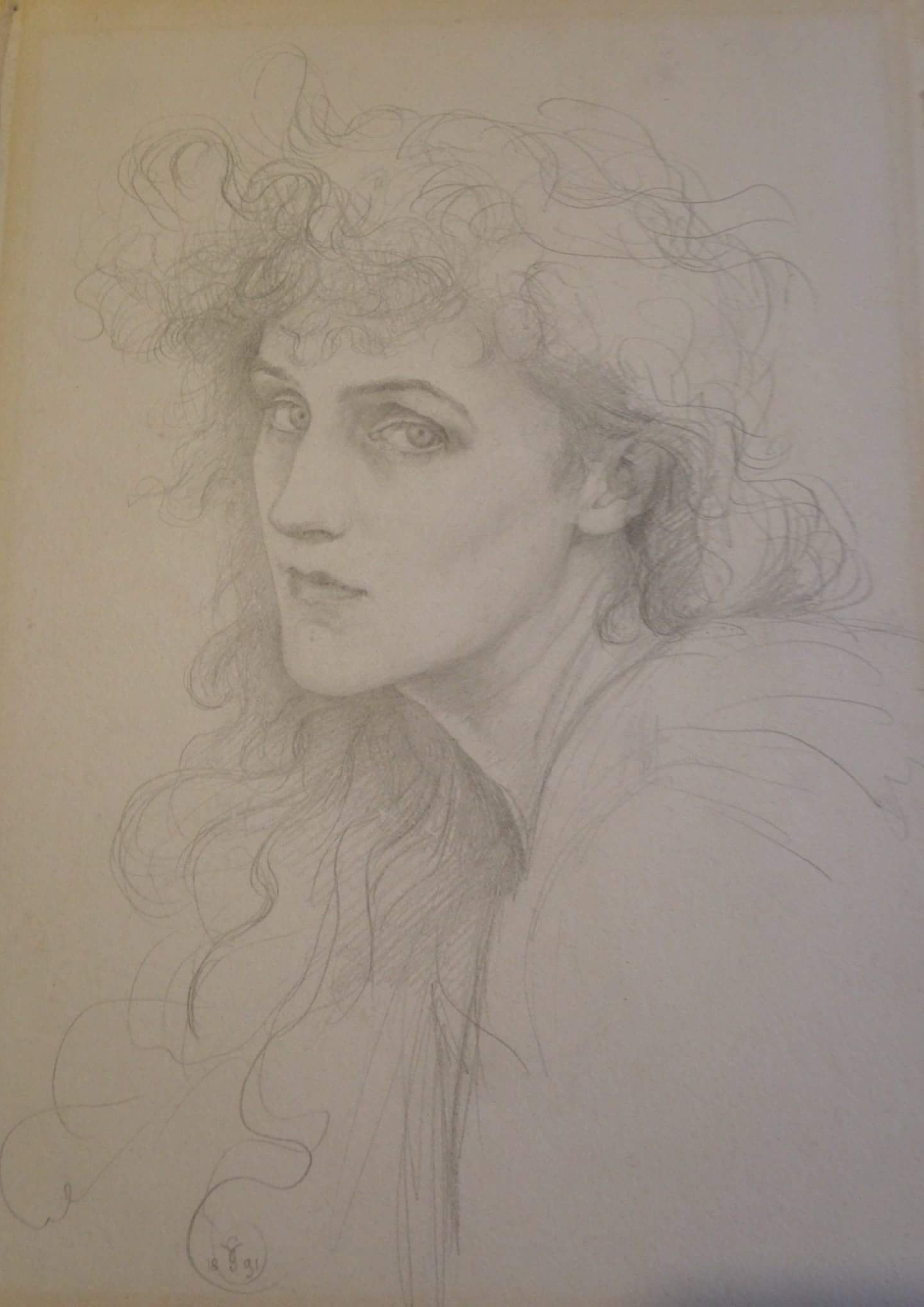 Self-portrait pencil drawing of Violet, Duchess of Rutland,1891. Gifted by the artist's grandson, John Julius Norwich to the Watts Gallery, Compton in 2016.